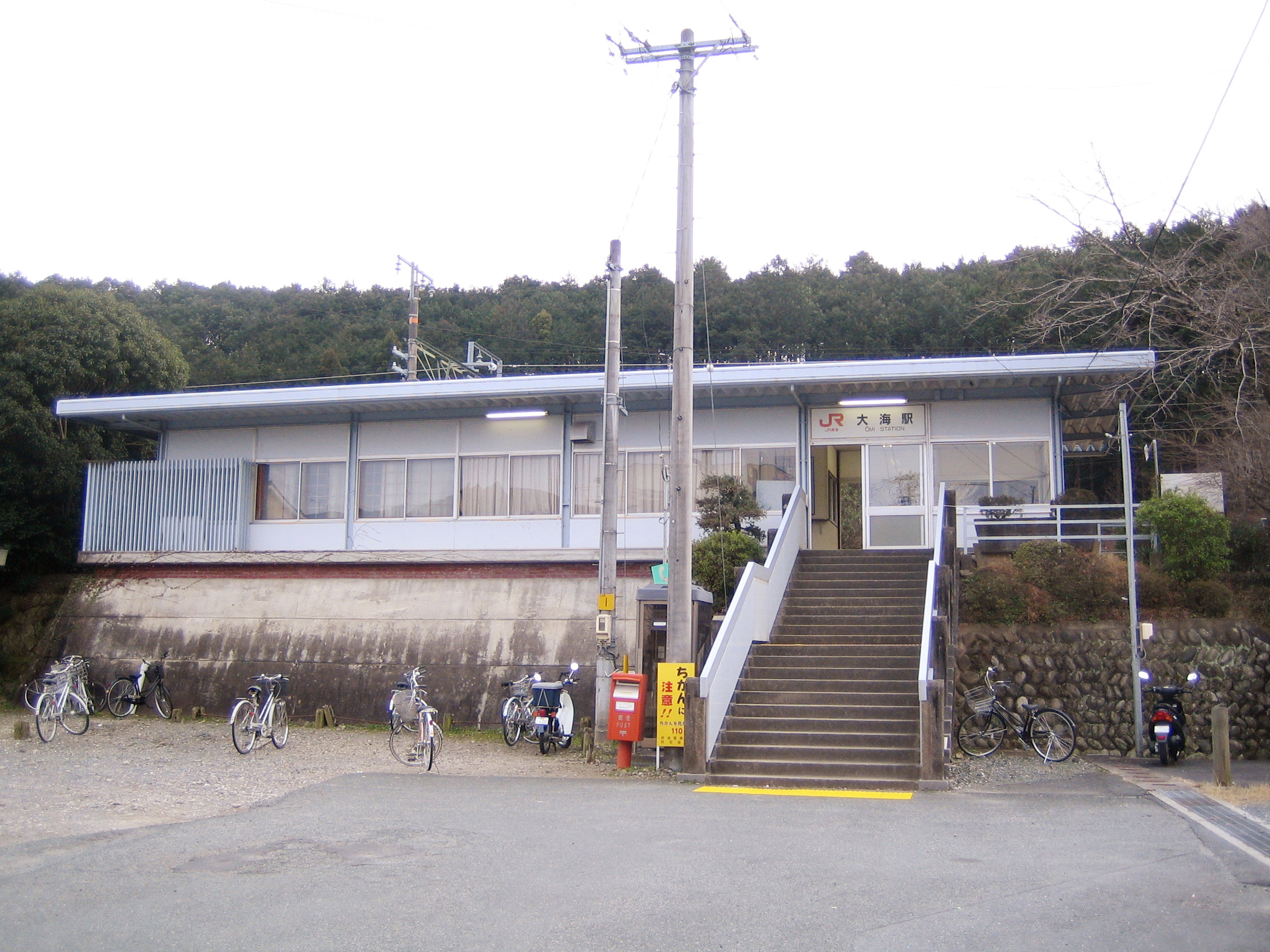 大海駅。愛知県新城市Omi Station (大海駅 Ōmi Eki), located in Shinshiro, Aichi, Japan